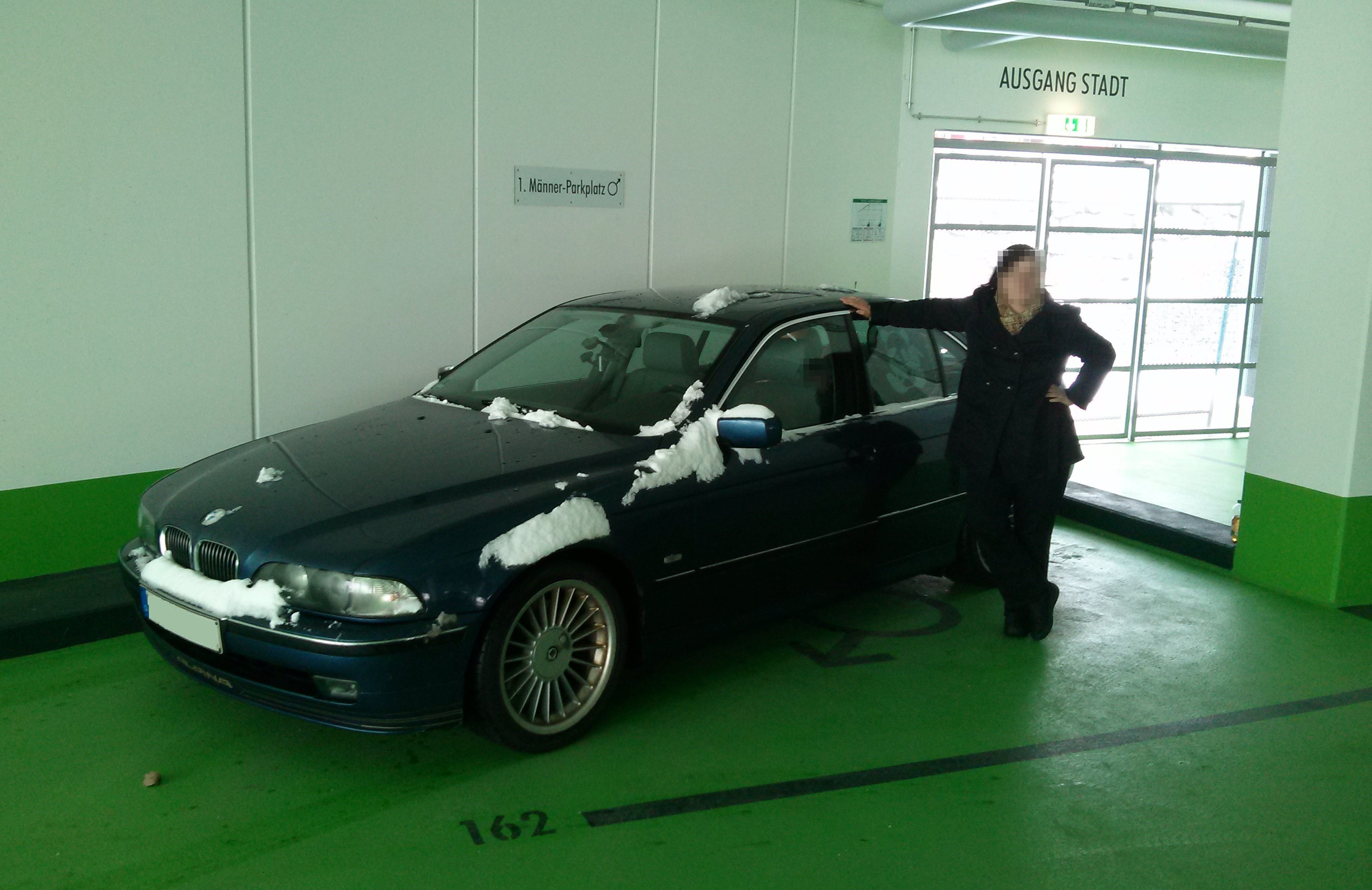 Men parking space in the city of Triberg in the Black Forest occupied by a woman